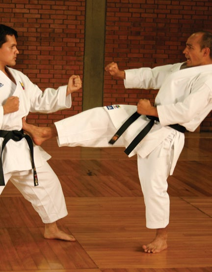 kumite